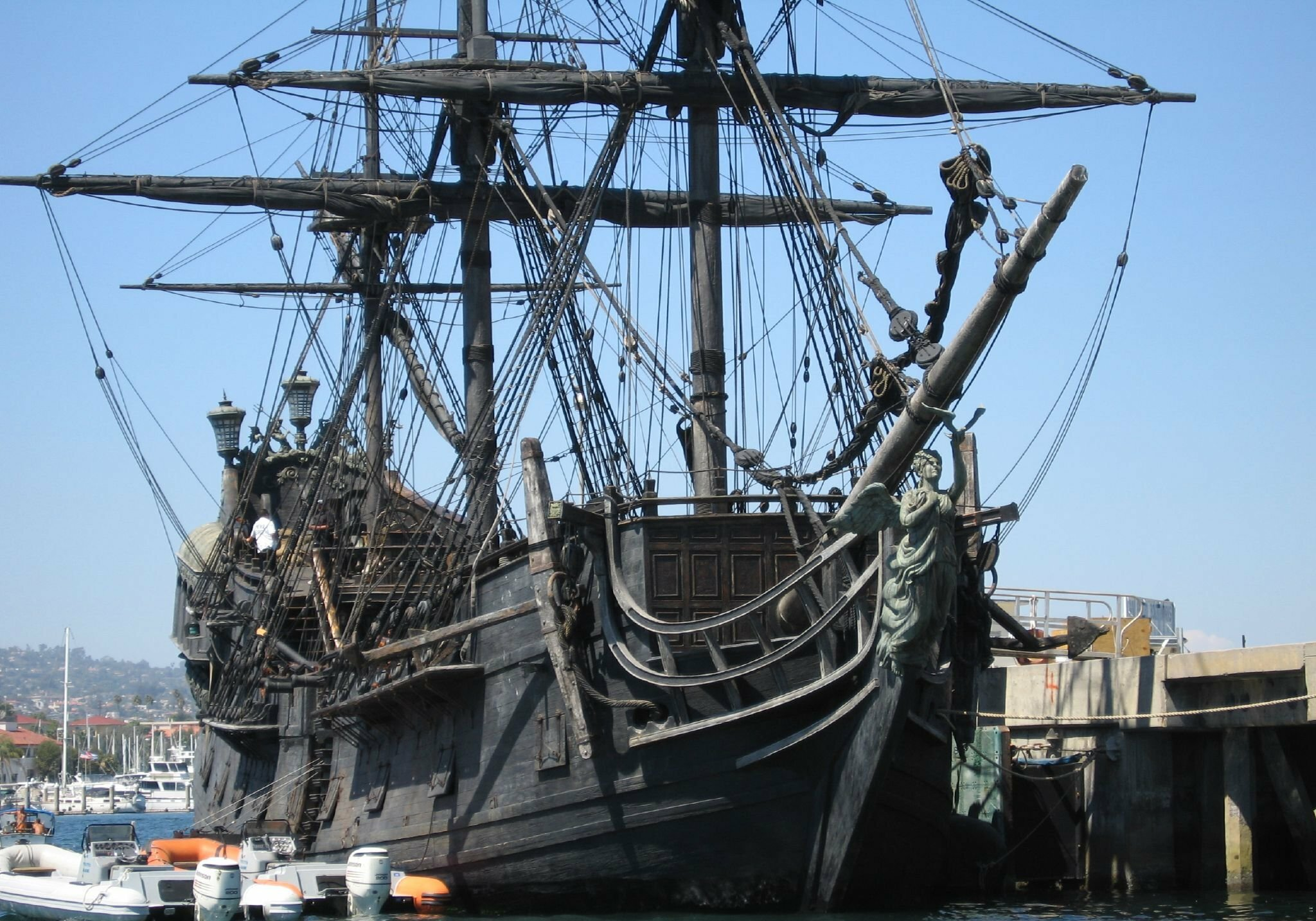 Whilst sailing out of San Pedro harbor back in early August '06 my girlfriend and I came across the Black Pearl from Disney's Pirates of the Caribbean films. They had been filming scenes from the third installment in the area. Be sure to check out the other shots I got of her. More here